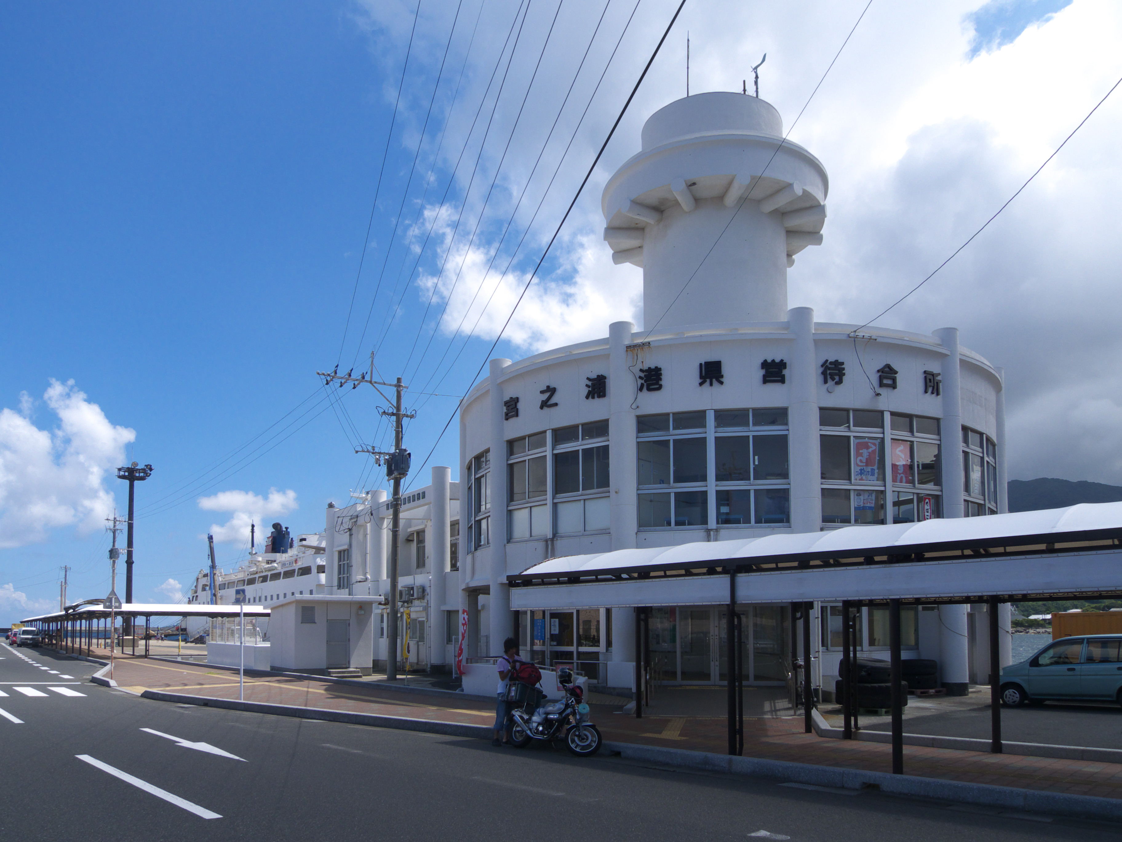 The Port of Miyanoura in Yakushima, Kagoshima Prefecture, Japan